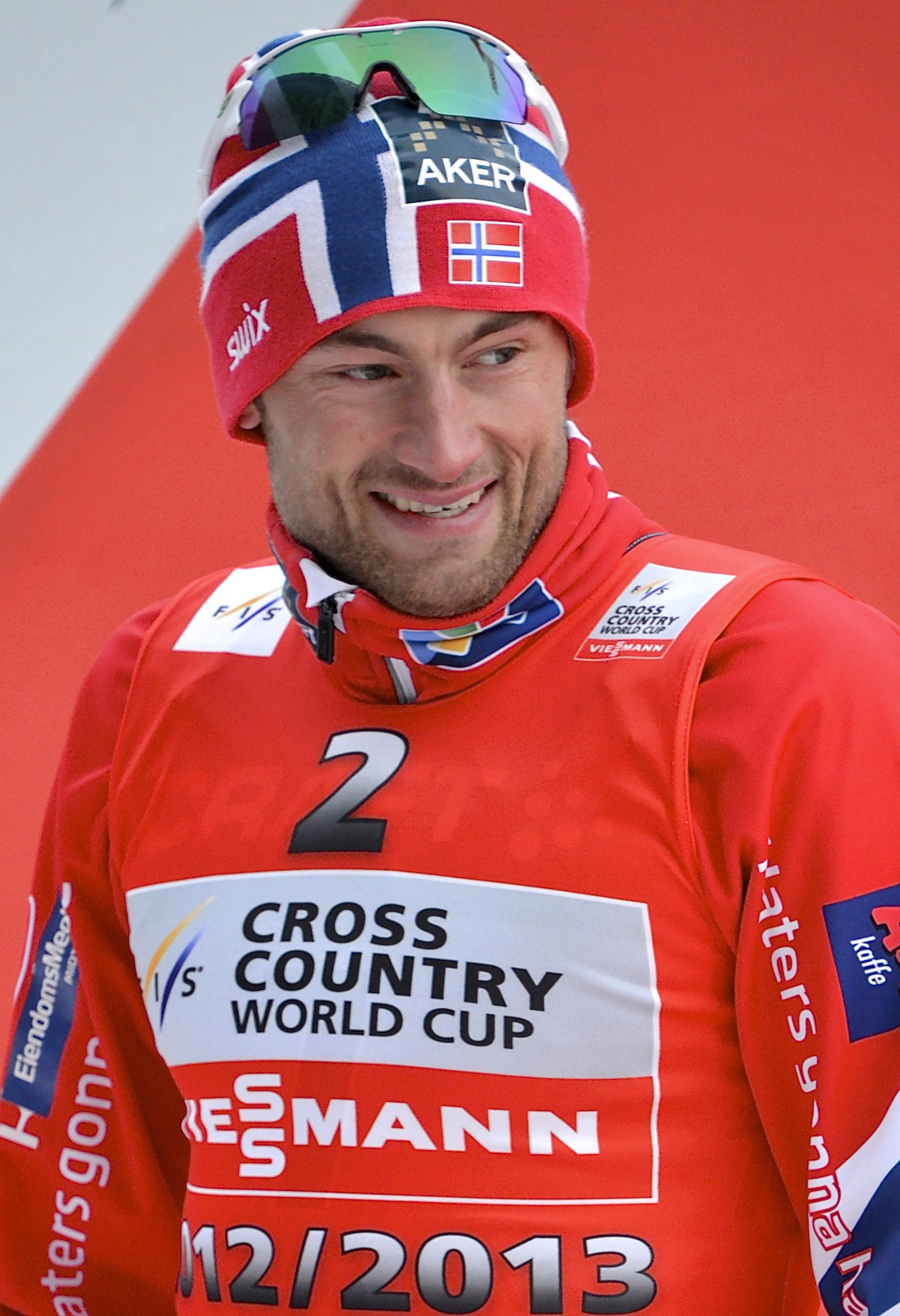 Petter Northug at the Royal Palace Sprint in Stockholm 2013.